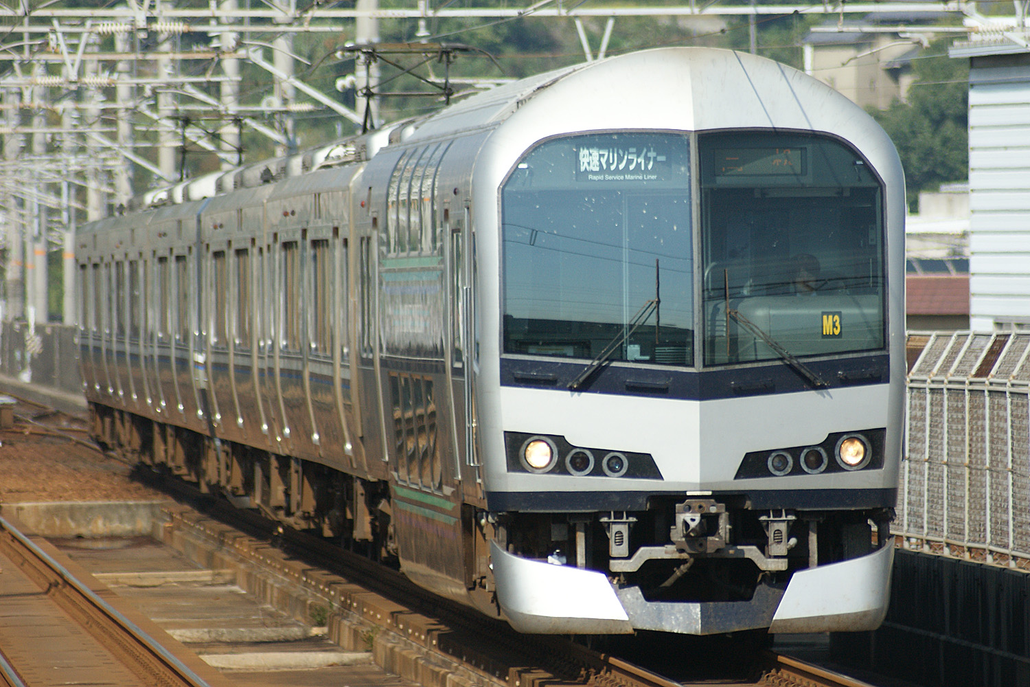 JR Shikoku 5000 series EMU, "Marine Liner".